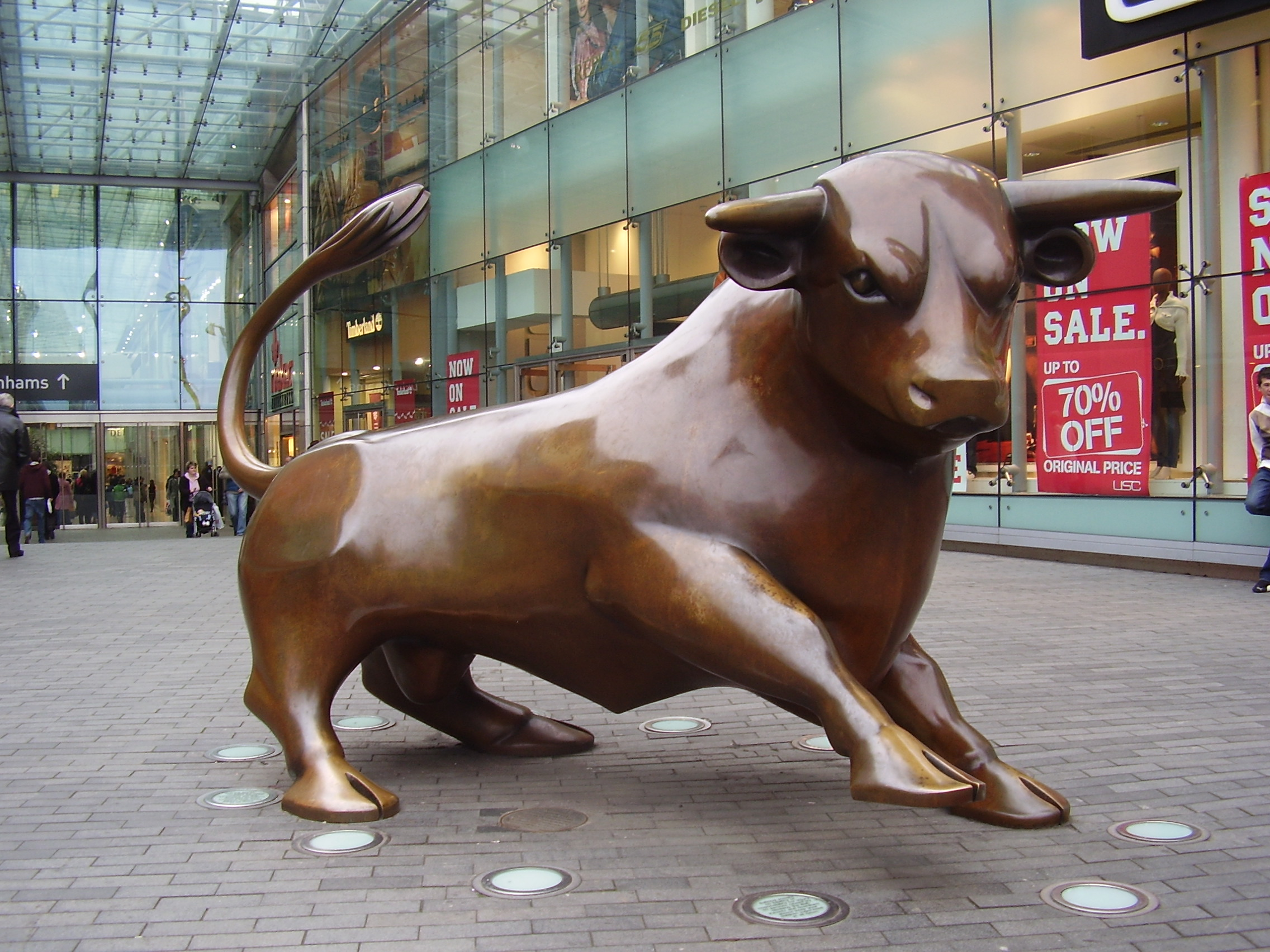 Picture of Birmingham Bullring Bull from English Wikipedia. Original description: This is a picture of the Bullring Bull at the entrance of the Birmingham Bullring. Taken by Luke Byfield.